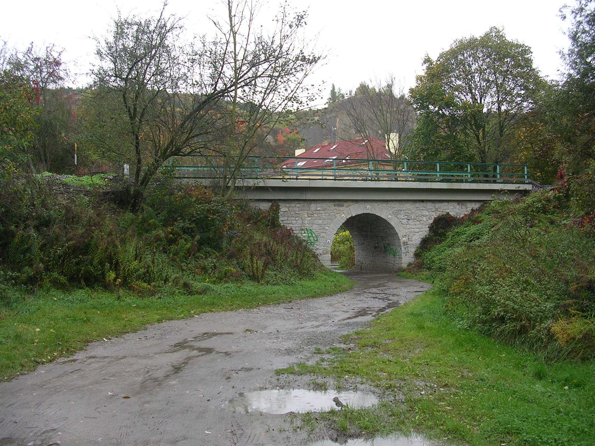 Prague-Hlubočepy, the Czech Republic. A road from Slivenecká to Hlubočepská street, a railway bridge.